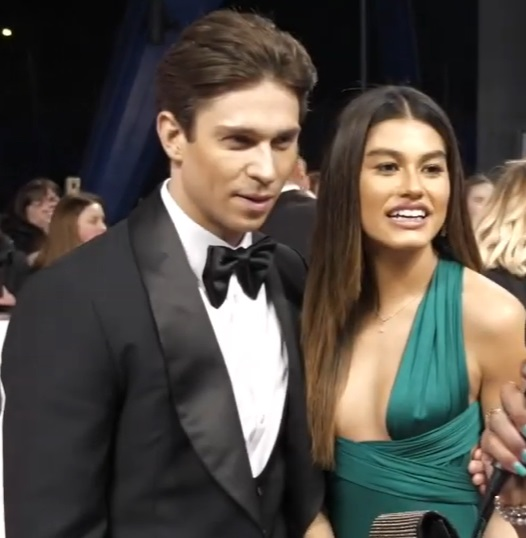 UK reality television personality Joey Essex and model Lorena Medina interviewed by UKGossip TV at the National Television Awards. Highlights of the National Television awards 2020 with Jourds @Jourds_ had the pleasure of gracing the NTA's red carpet at the o2 arena, inteviewing our much loved tv reality stars! Filmed and edited by @Jojobami